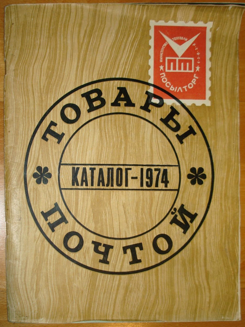 Cover of a mail-order catalogue “Posyltorg”, USSR, 1974